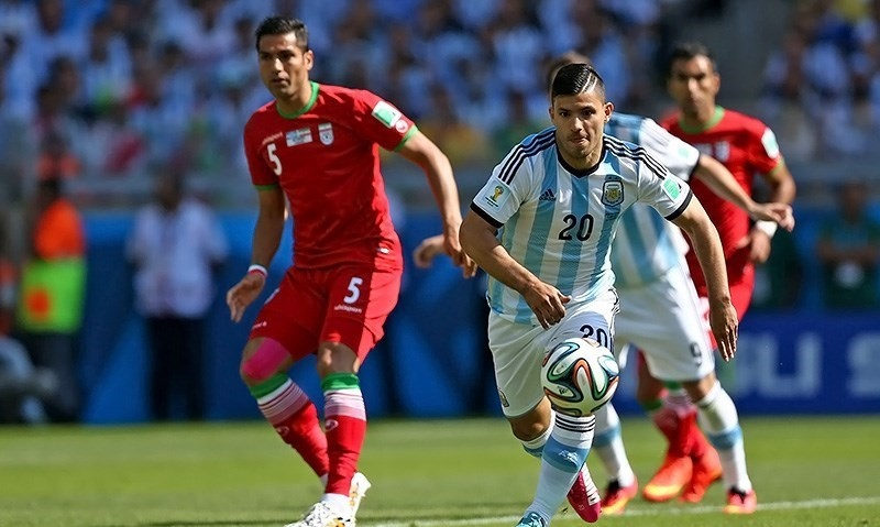 Iran and Argentina national football teams match, 2014 FIFA World Cup Group F